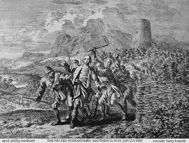 An etching by Jan Luyken illustrating Matthew 21:33-39 in the Bowyer Bible, Bolton, England.